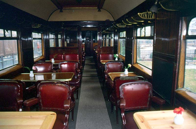 Internal view of Orient Express car, image from the Railway Museum, Thessaloniki, Central Macedonia, Greece